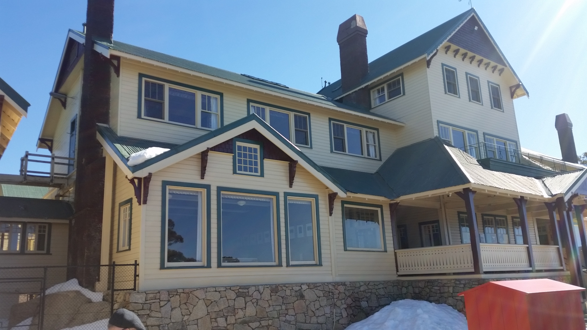 Mount Buffalo Chalet, Victoria, Australia, after restoration work in 2018. Image taken with Samsung Galaxy S5.